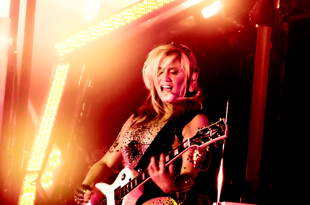 Kesha performing "Dirty Picture" at Kool Haus in Toronto, Ontario.